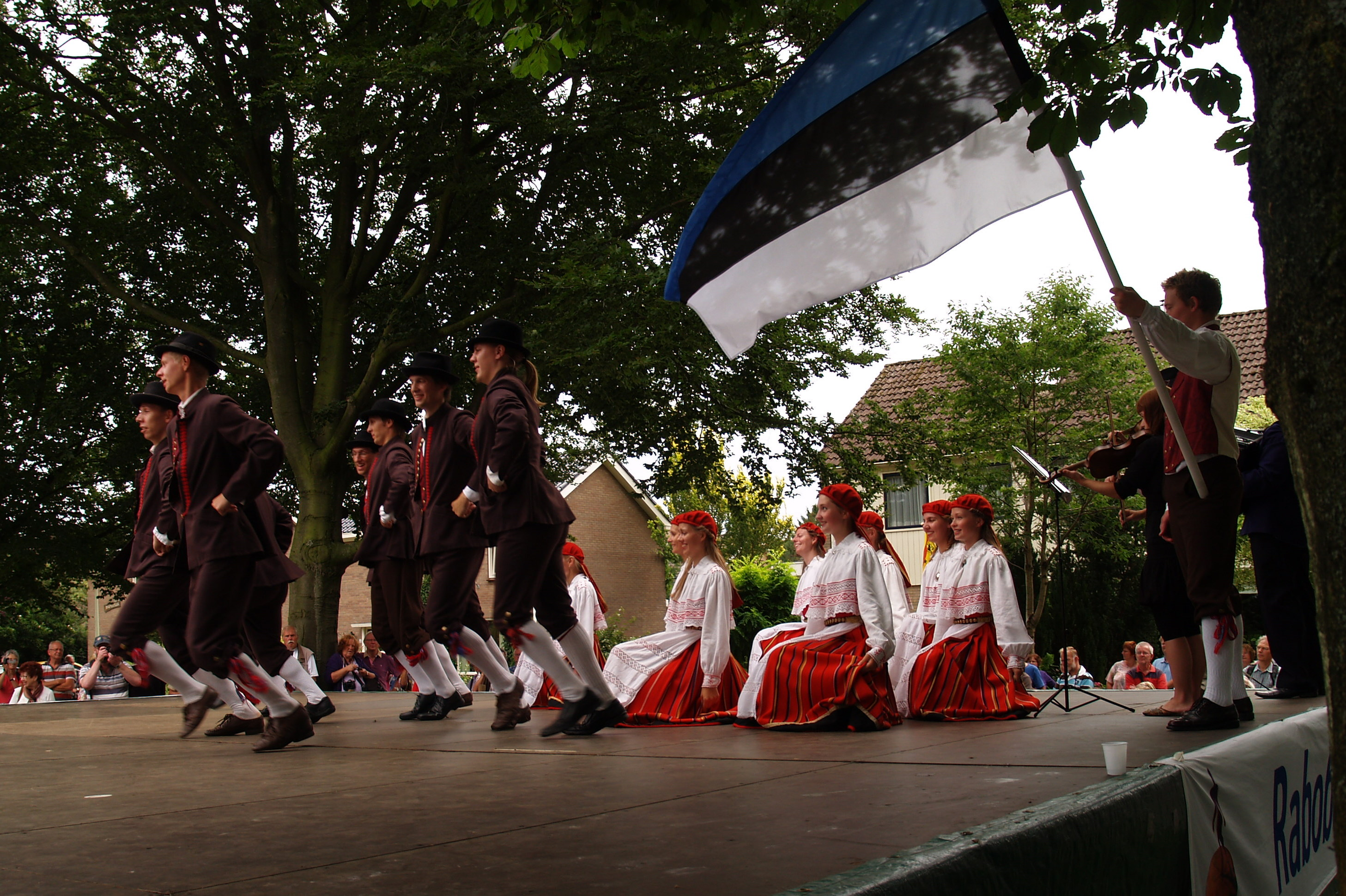 Tartu University’s Folk Art Ensemble in SIVO festival.